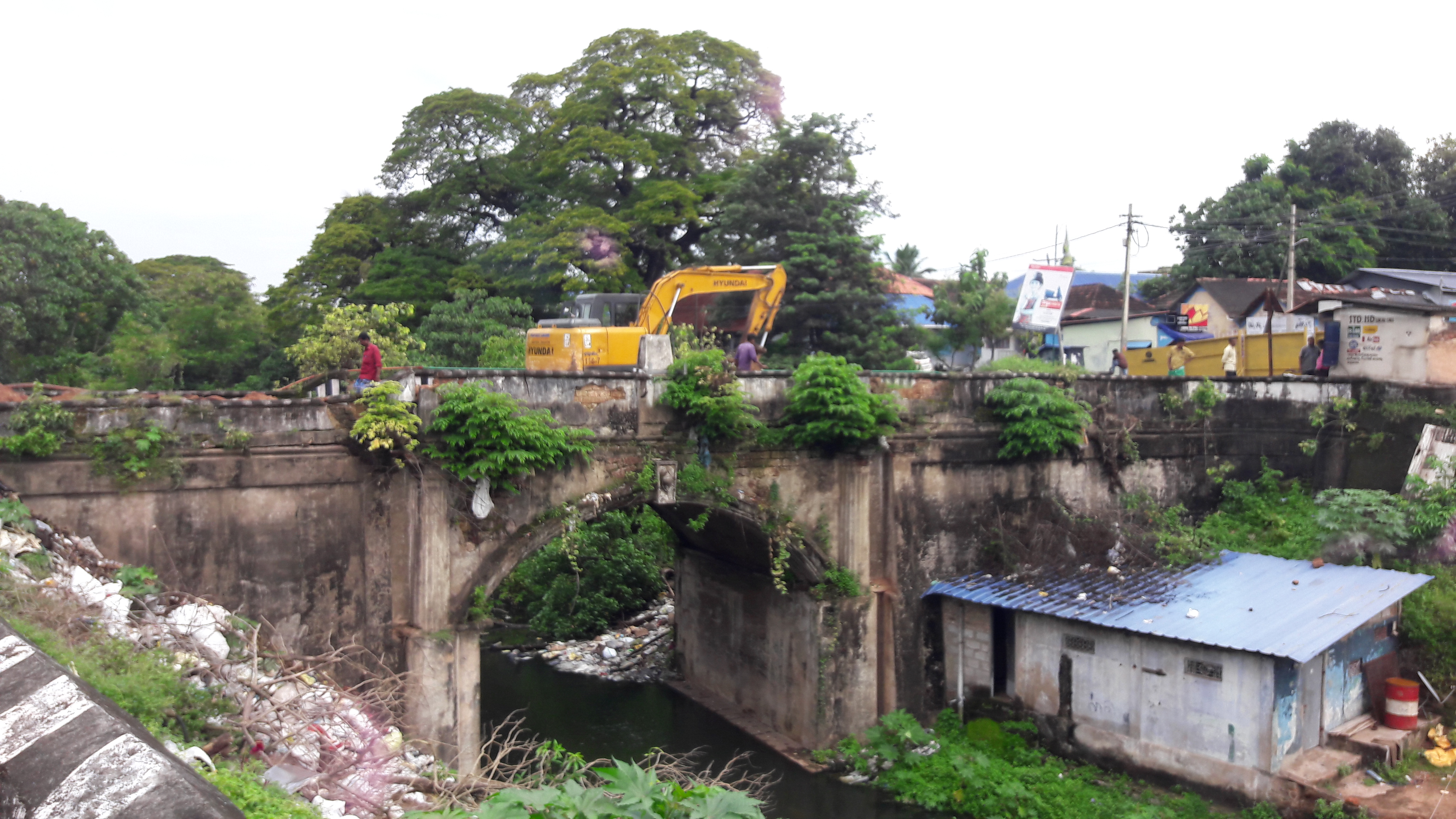 Kallupalam kollam, constructed in 1820